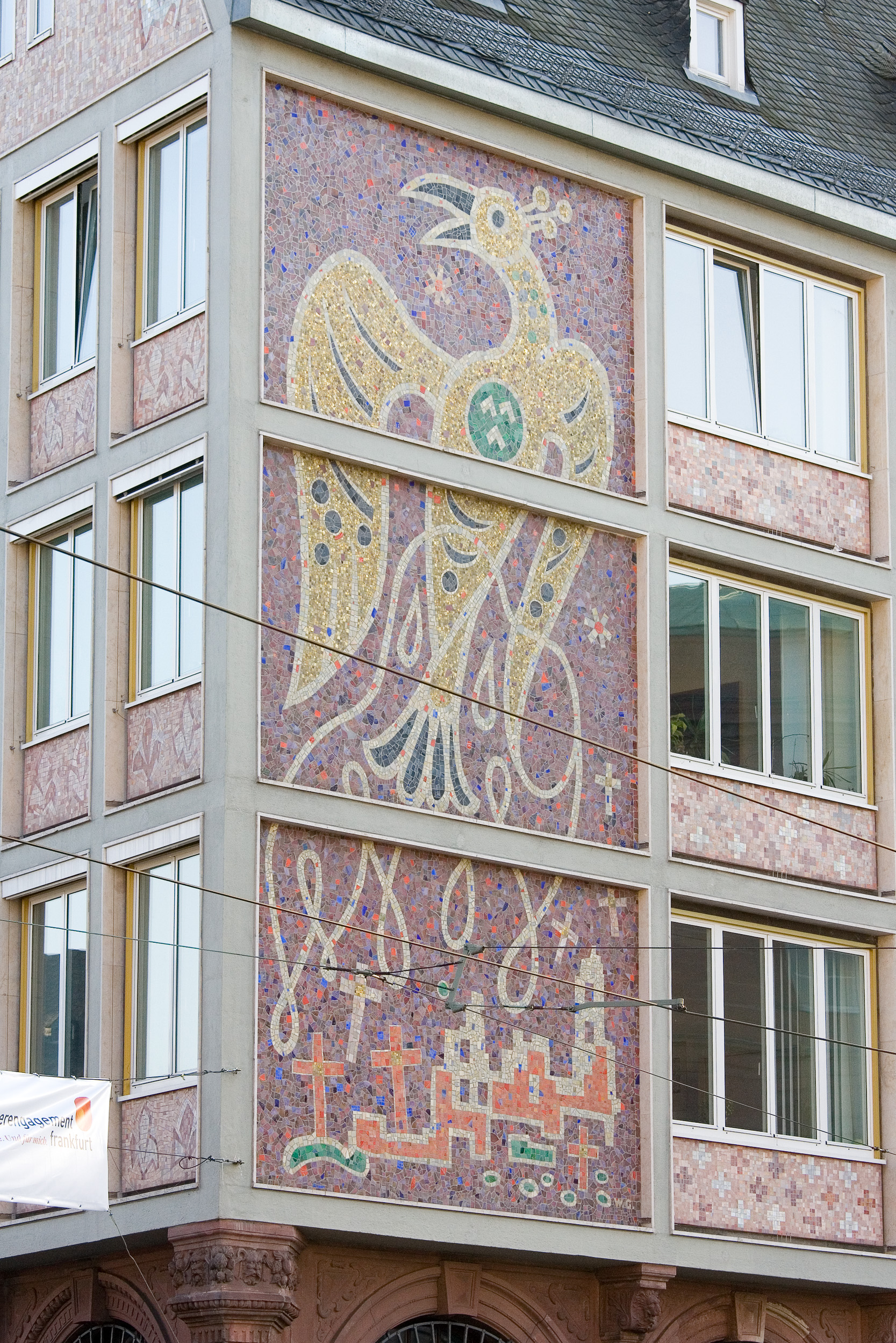 Mosaic of the Phoenix arising from the ash, northern facade of the Salt House in Frankfurt on the Main